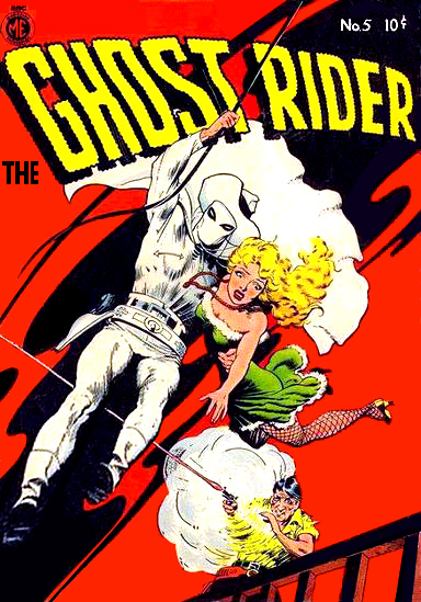 Cover, The Ghost Rider #5 (1951) - Magazine Enterprises (defunct company). Cover art by Frank Frazetta